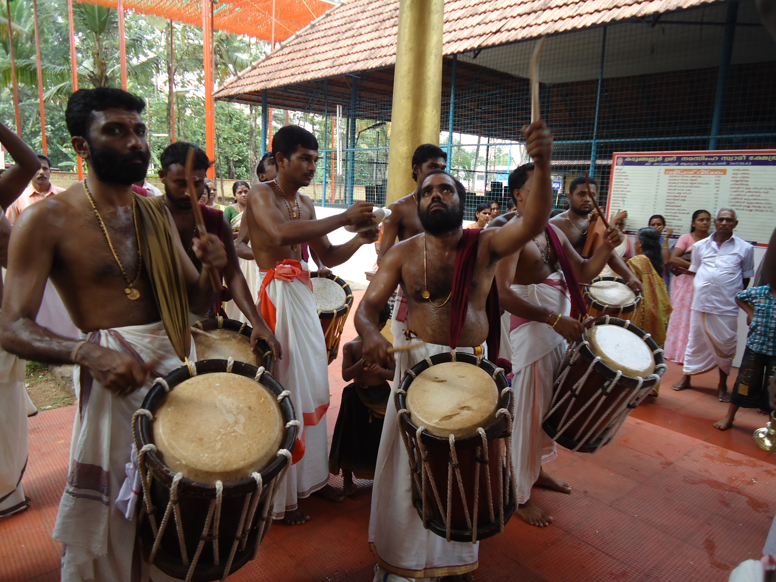 Chendamelam_in_temple